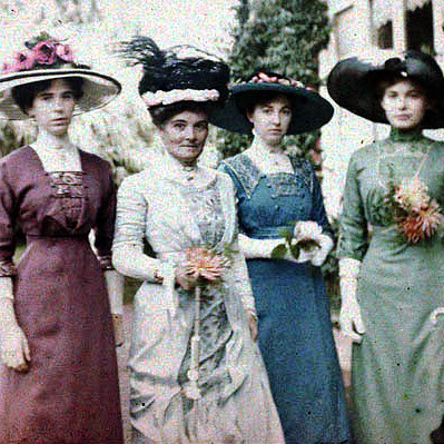 Mary Gullick, Zoe Gullick, Marjory Gullick, Chloe Gullick - outside Altoncourt, Killara? c.1909 from Gullick family, c.1909-1922 / photographed by William Applegate Gullick. Wife and daughters of William Applegate Gullick Format: Autochrome glass plate, colour Notes: Find out more about the people and places of New South Wales at Discover Collections - People & Places From the collections of the Mitchell Library, State Library of New South Wales Information about photographic collections of the State Library of New South Wales: .au/search/SimpleSearch.aspx Persistent url: .au/item/itemDetailPaged.aspx?itemID=442696